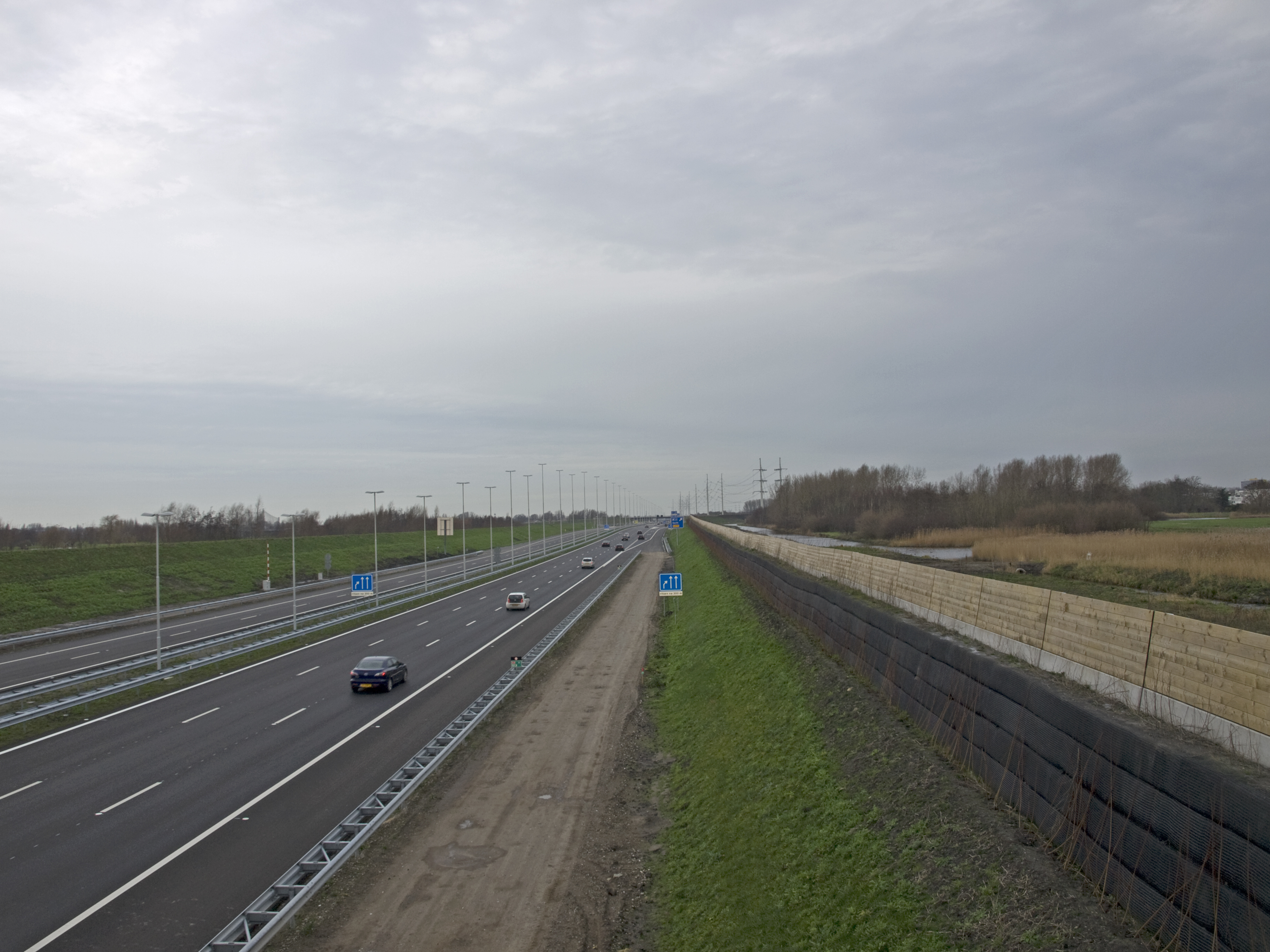 A4 Motorway between Delft and Schiedam on 20 December 2015, after the construction of this link was completed. Right lanes (northbound) are already open for traffic (they were open on 18 December); left lanes (southbound) are still closed and are expected to be opened later the same day. The photo is taken from the pedestrian bridge (Zuidkade) connecting Delft and Schipluiden.